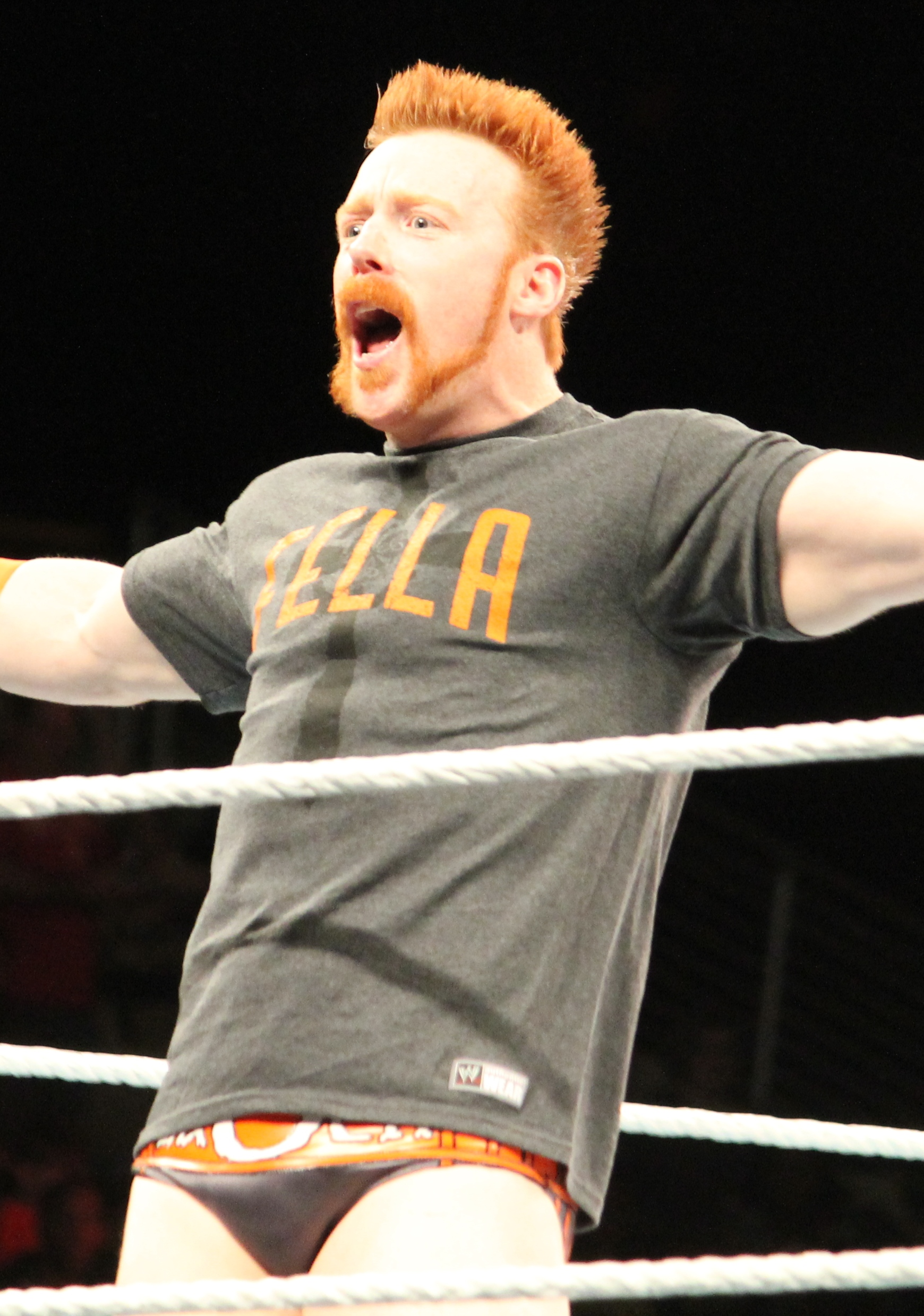 Sheamus in April 2014.